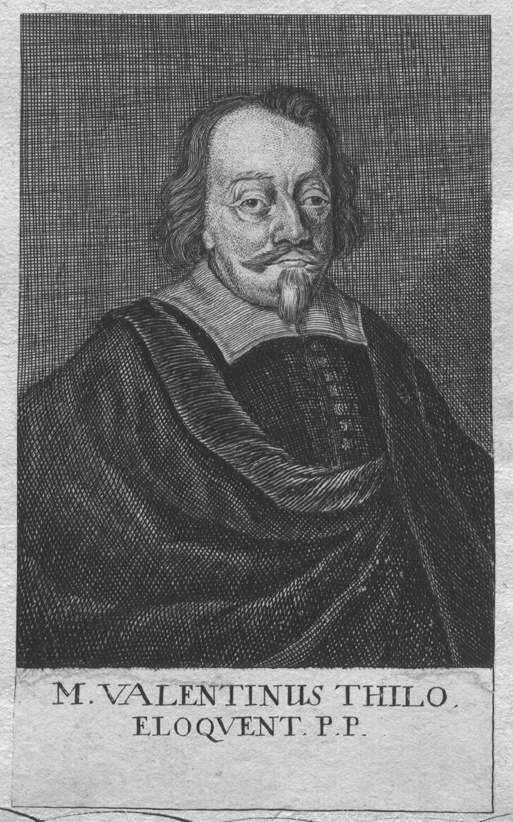 Potrait of Valentin Thilo der Jüngere (1607-1662), copper engraving 142x85 mm